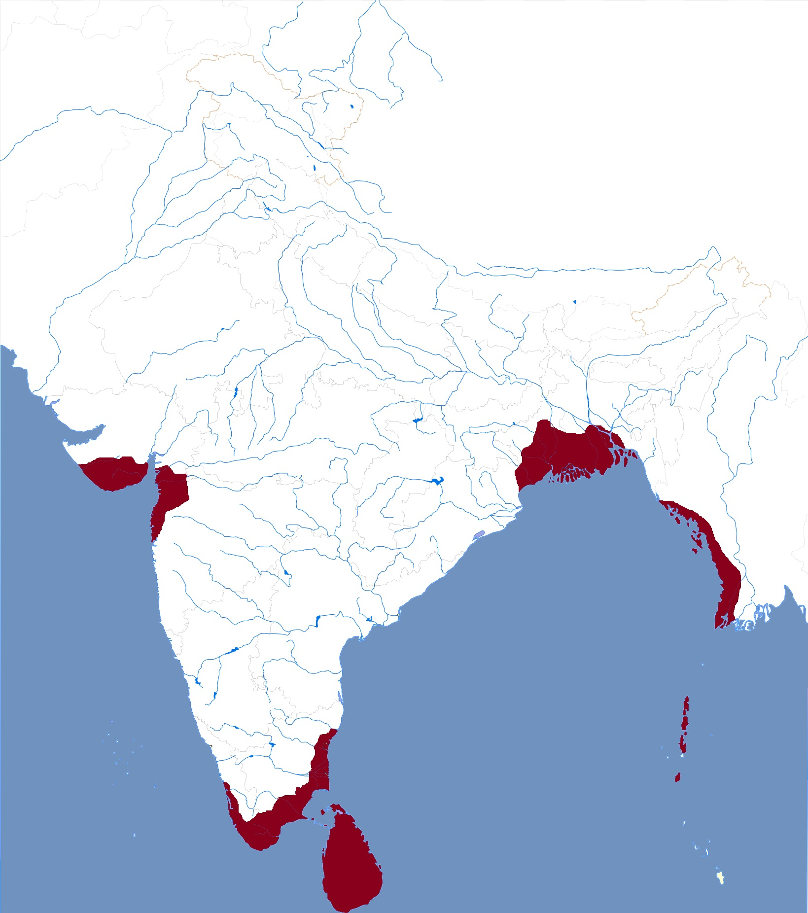 The Kingdom of Kotte at its greatest territorial extent.(1412–1467)